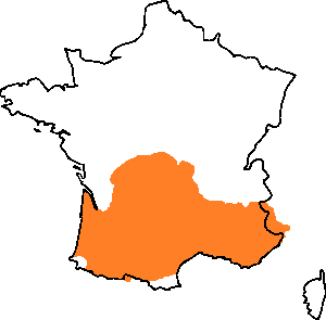 Occitan language in France.